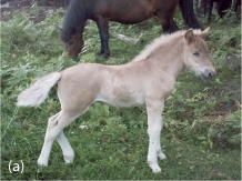 Phenotypic description of Silver colored foals. (Horse coat colors: Silver dapple gene) A. A Silver colored Icelandic horse foal. Silver foals are generally very pale on the body with white mane and tail.